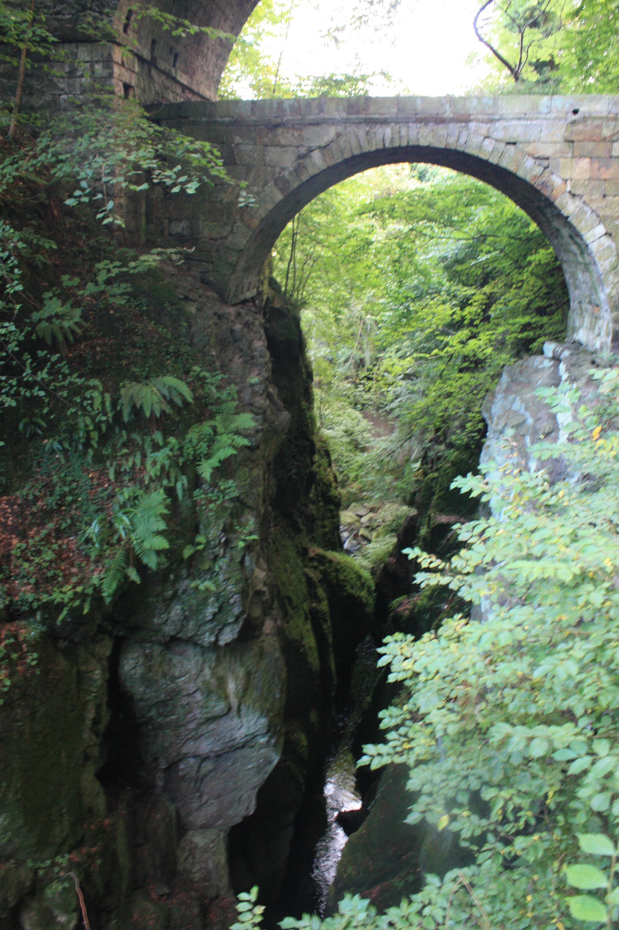 Rumbling Bridge, the deep narrow gorge beneath the bridge which causes the rumble